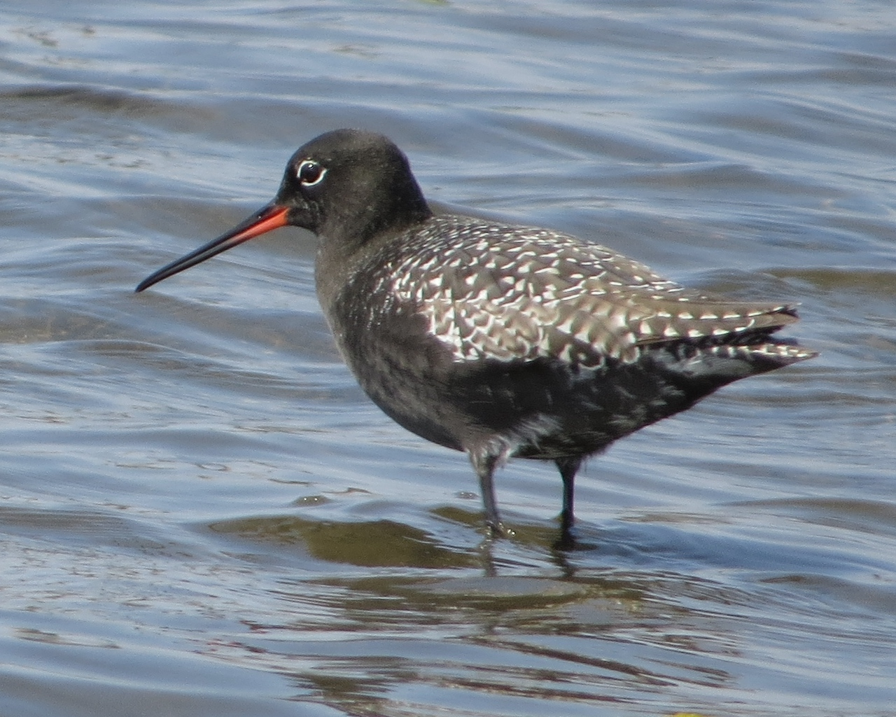 Tringa erythropus (summer plumage), in Aichi prefecture, Japan.